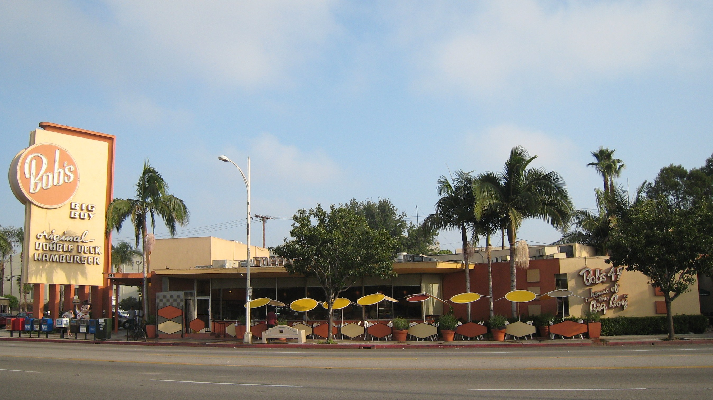 The Bob's Big Boy Restaurant — on Riverside Drive in the Toluca Lake area of Burbank, the San Fernando Valley, California.